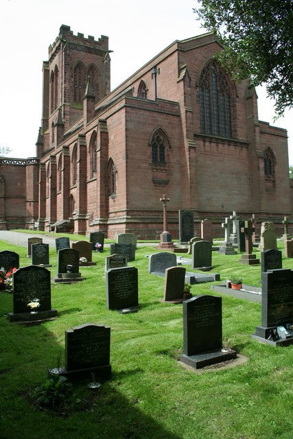 Eastern Elevation, near to Eccleston, Cheshire, Great Britain. The church of St. Mary the Virgin, holds memorials to five Dukes of Westminster, including in the Old churchyard, an interesting grave, that of a young Earl Grosvenor who died in 1909 aged just four.